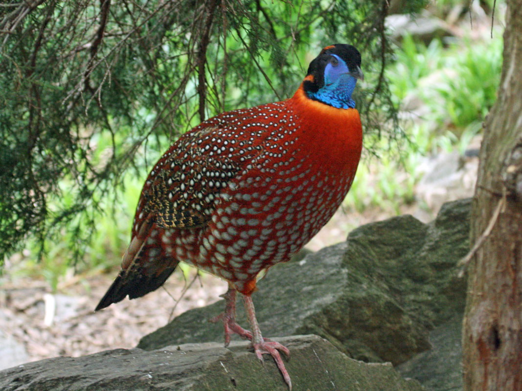 Temminick's Tragopan (Tragopan temminckii) - Washington National Zoo